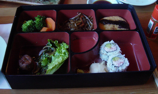 A bento lunch served at Japanese restaurant. This photo was taken in Nov 2004 in a Japanese restaurant in the US.